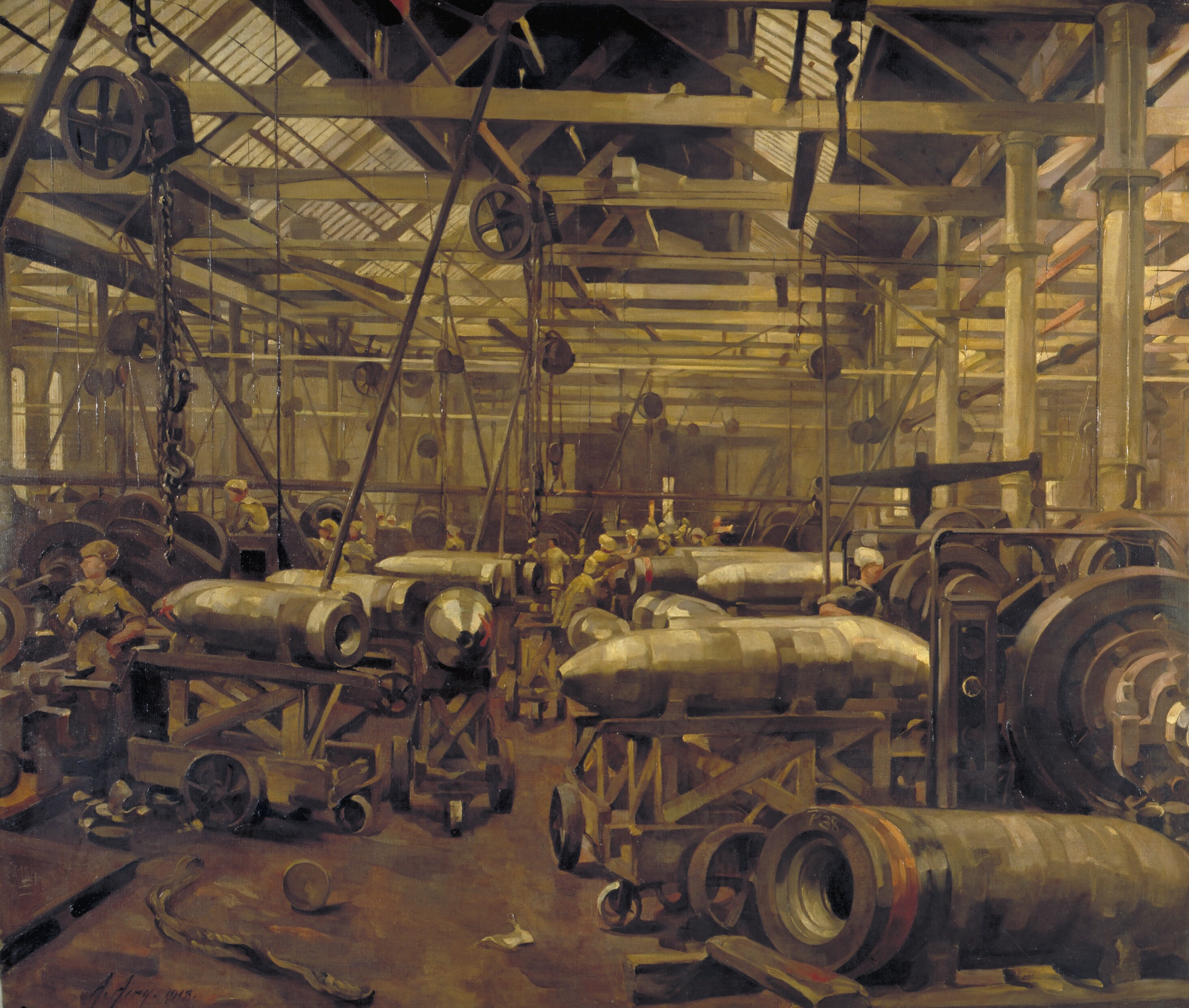 Shop for Machining 15-inch Shells- Singer Manufacturing Company, Clydebank, Glasgow, 1918 image: The interior view of a munitions factory showing the production of 15 inch shells by women factory workers. There are winches hanging from the ceiling and large steel shell cases sitting on wooden trolleys in the centre of the image. There are several women standing amongst the machinery, one to the left, and another on the right.